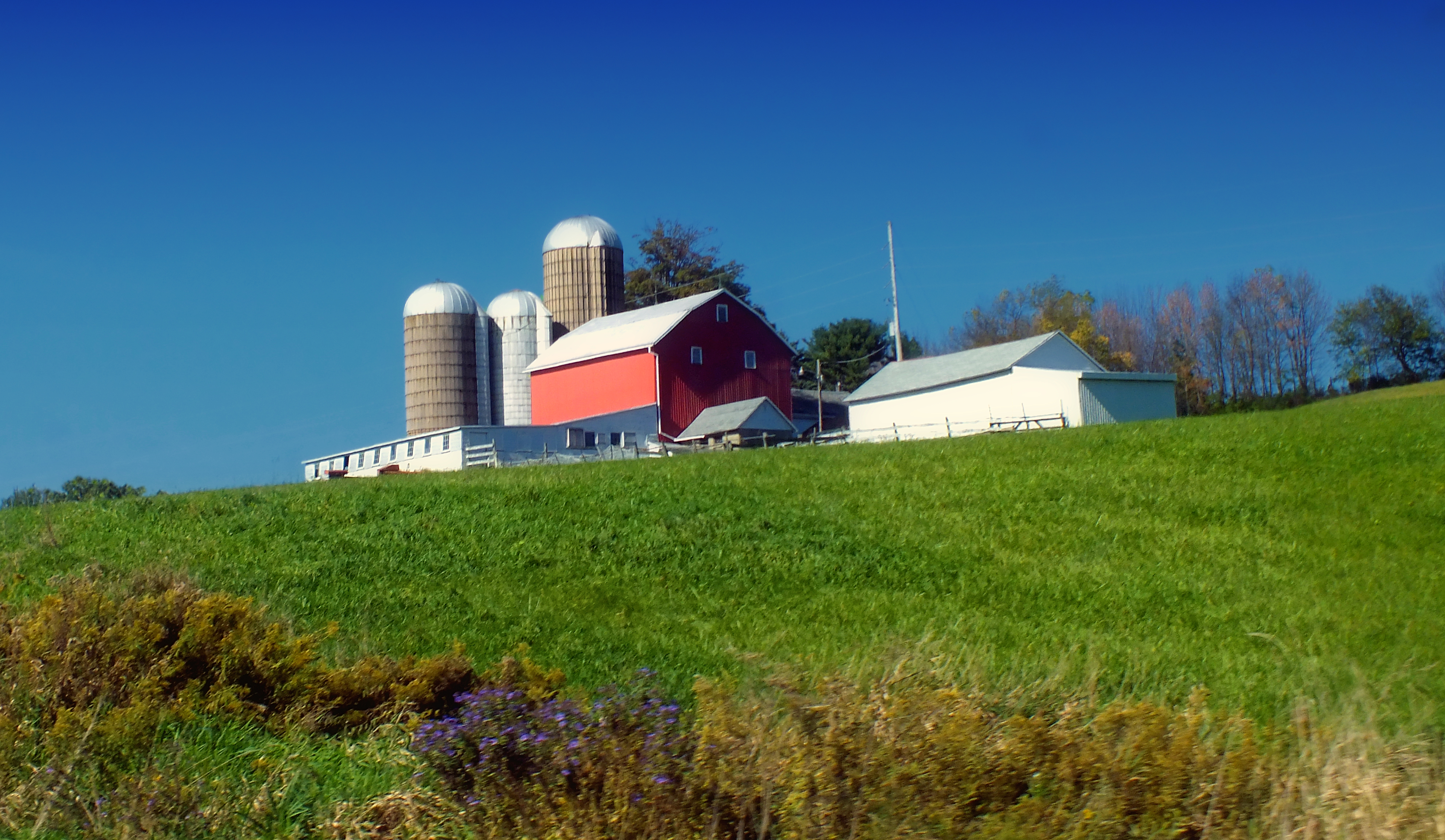 Farmstead, Washington Township, Wyoming County.